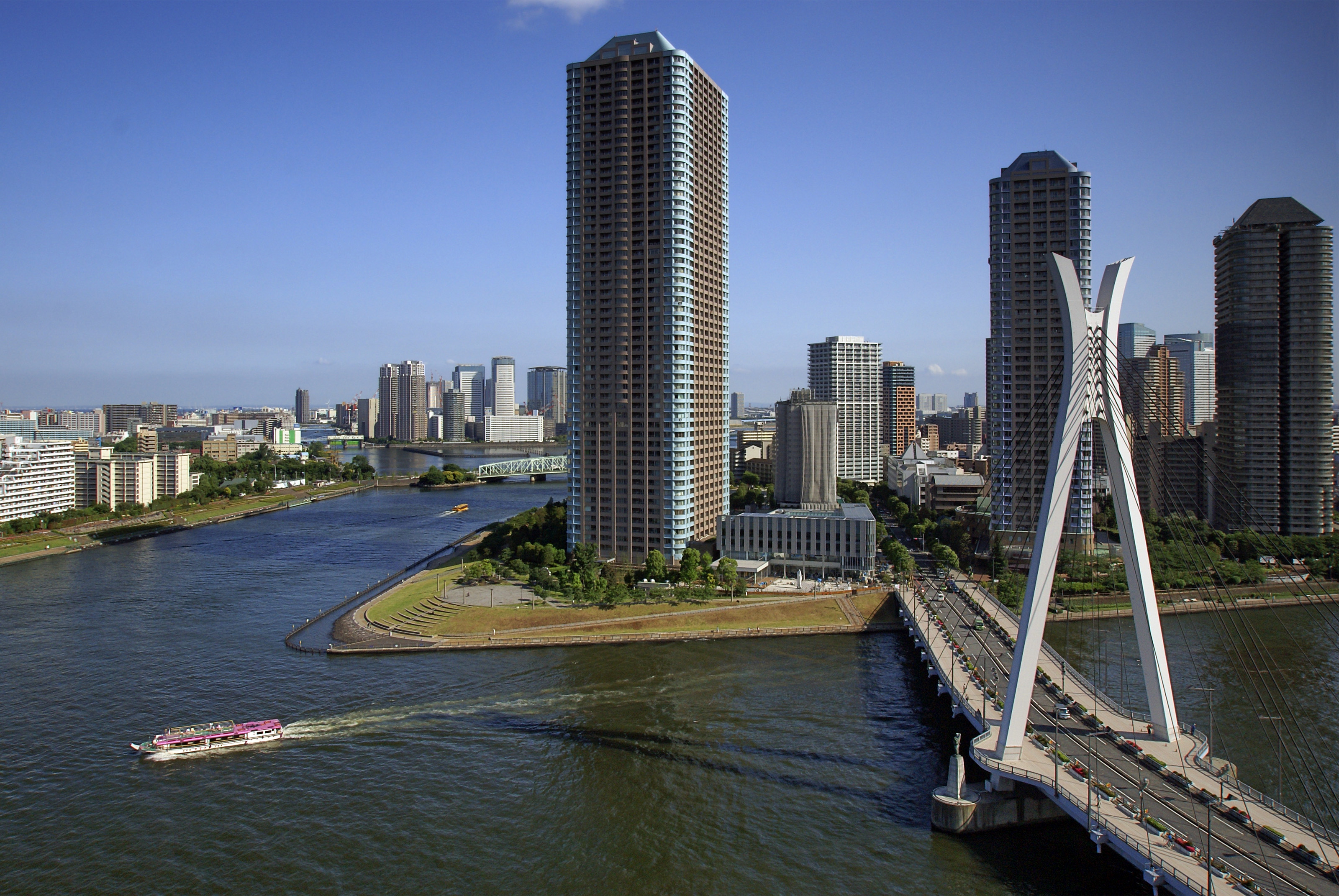 River City21 in Chuo-ku, Tokyo, Japan